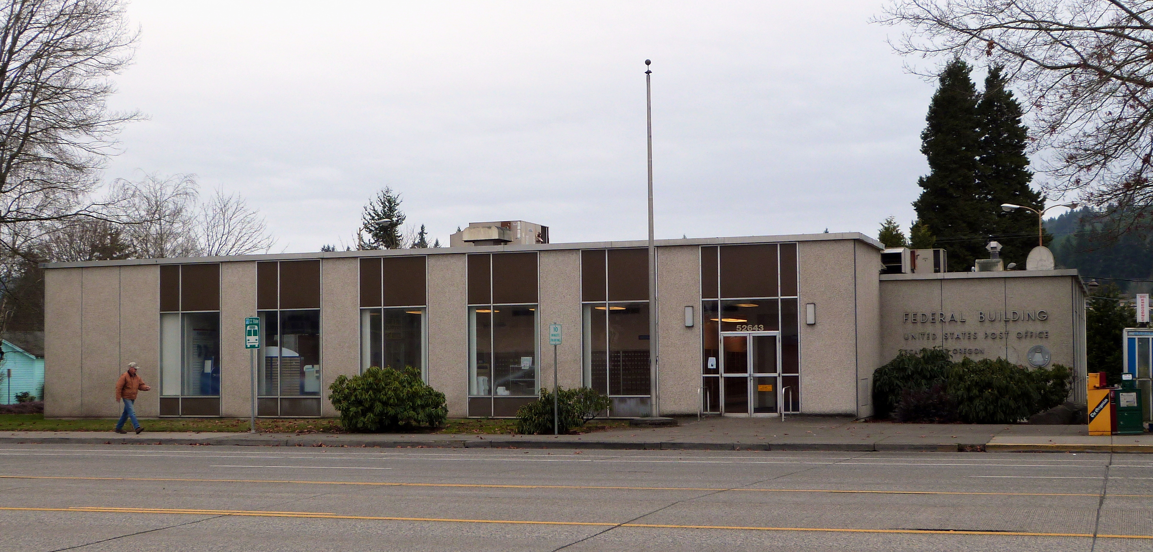 The historic U.S. Post Office and Federal Building (built 1966), located at 52643 Columbia River Highway (US 30) in Scappoose, Oregon, United States, is listed on the U.S. National Register of Historic Places.